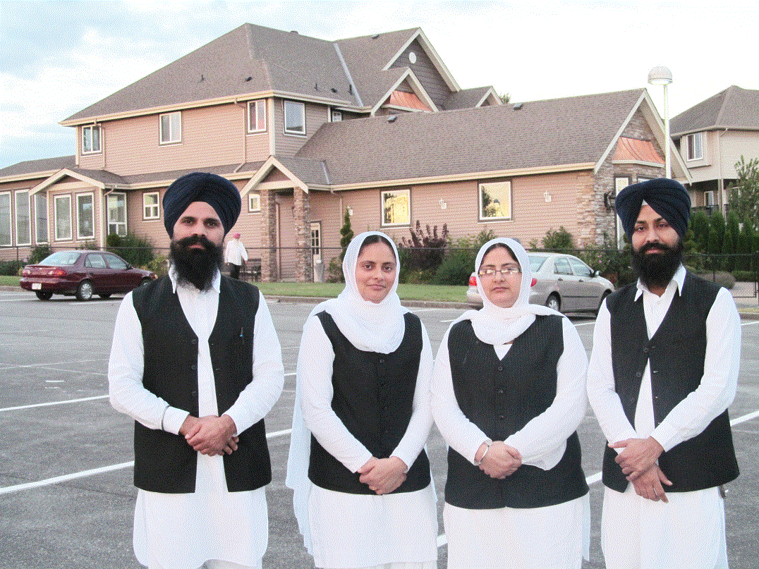 dhadi jatha machhiwara sahib walian bibian